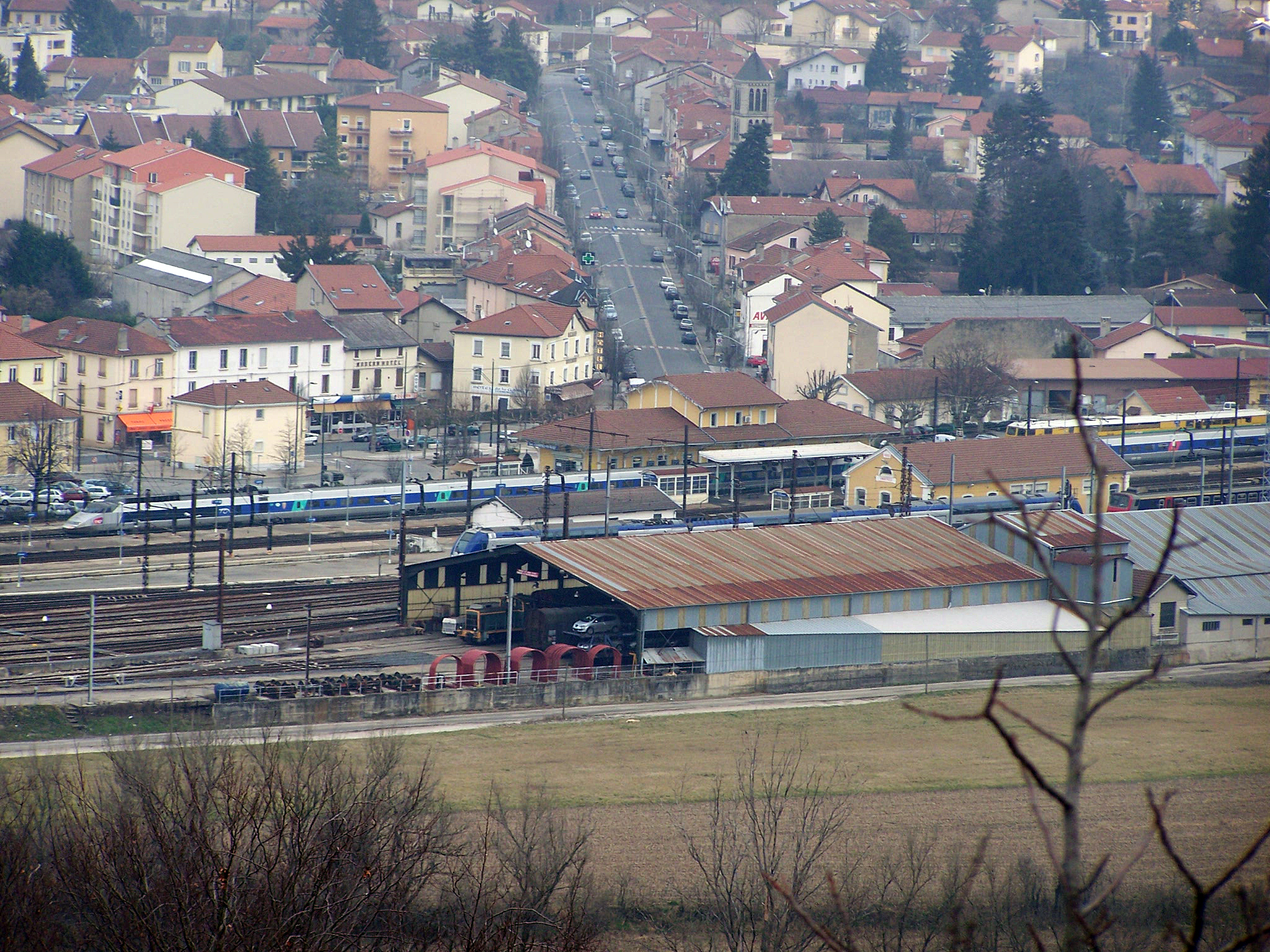 Sight on Ambérieu railway station from the St-Denis-en-Bugey tower, in Ain, France.